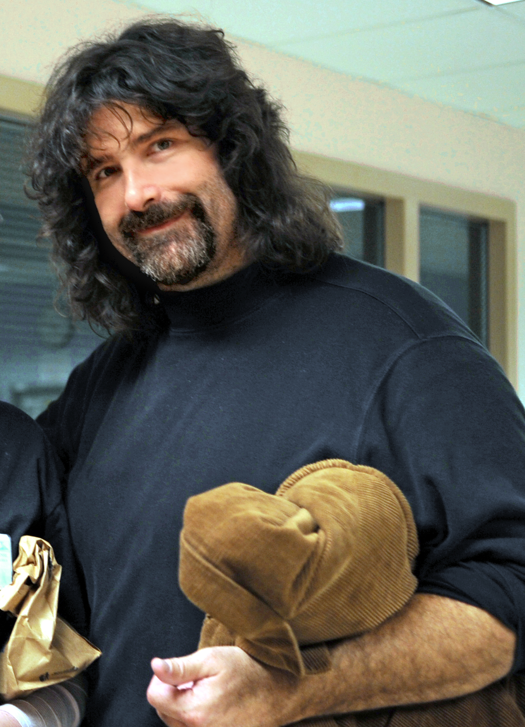 Professional wrestler Mick Foley poses for a photo with Army Spc. Donald Woodard during a visit to the Center for the Intrepid in San Antonio, Texas, Sept. 26, 2008. (original text)